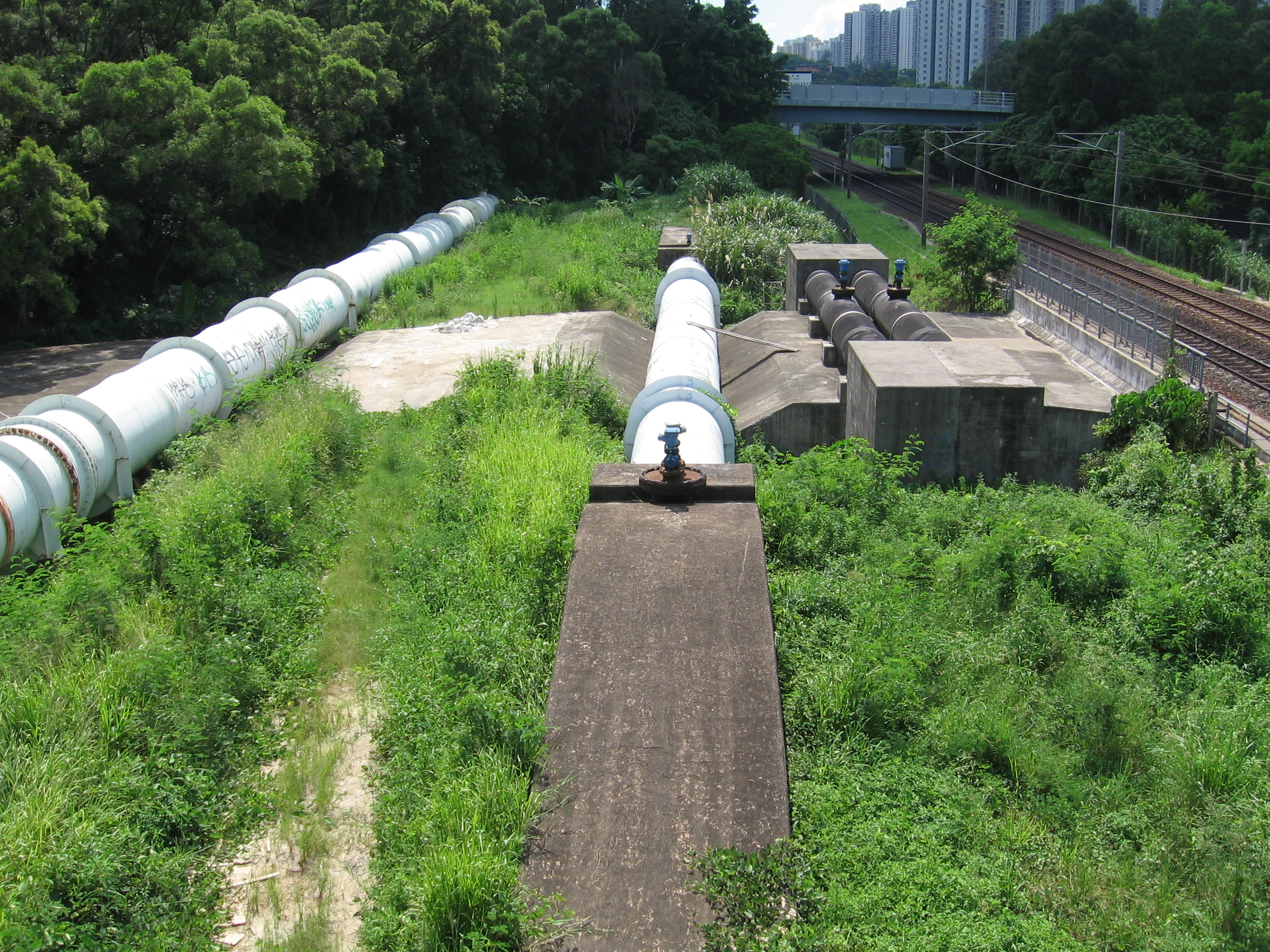 Ma Wat River under water pipe near East Rail Line, 2010